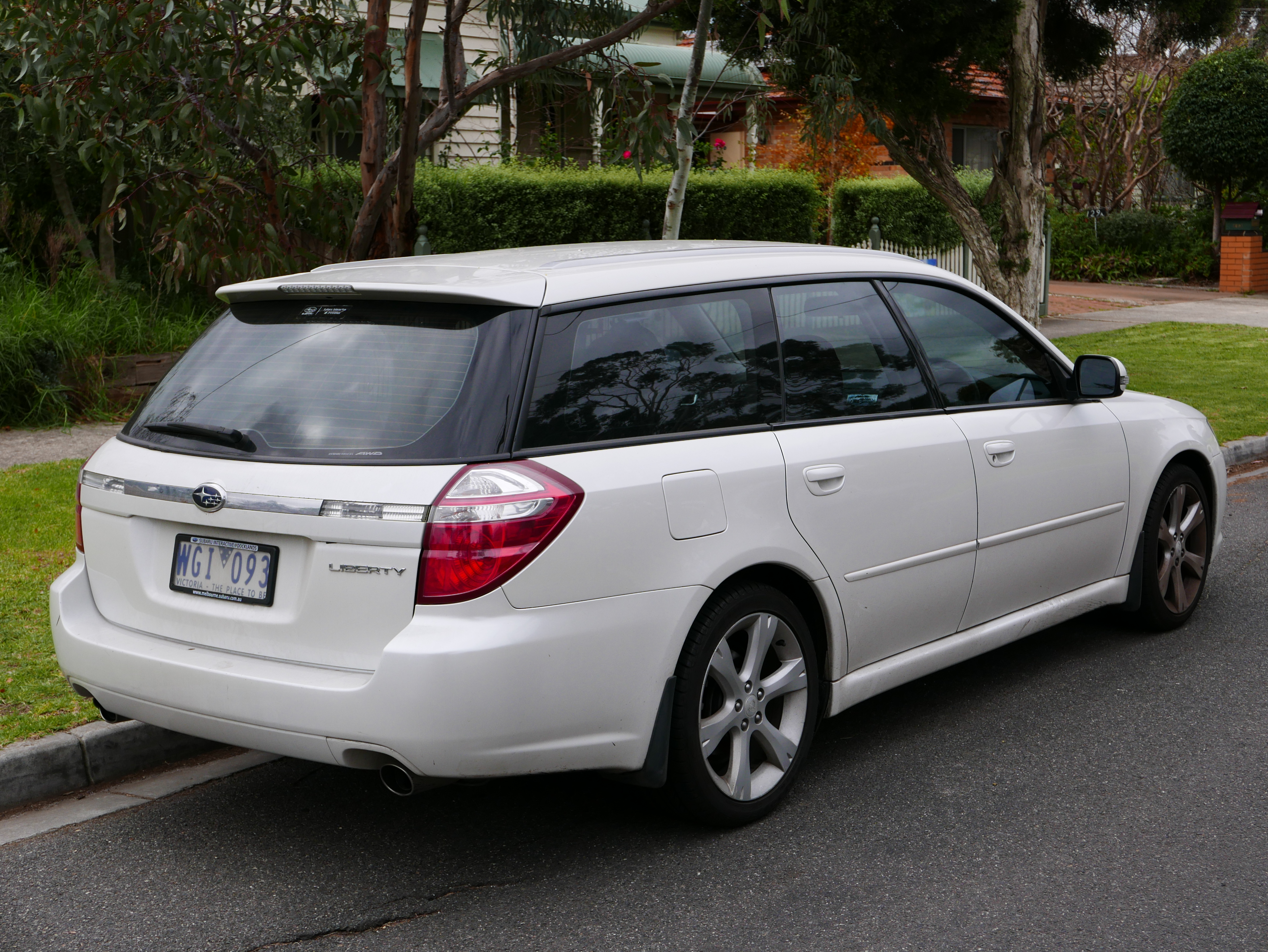 2008 Subaru Liberty (BP9 MY08) 2.5i station wagon. Photographed in Northcote, Victoria, Australia. Vehicle registration enquiry resultsJurisdictionVictoriaRegistrationWGI093Chassis codeJF1BP9KL58G072321Engine codeD487080Compliance date2008-06Year of manufacture2008